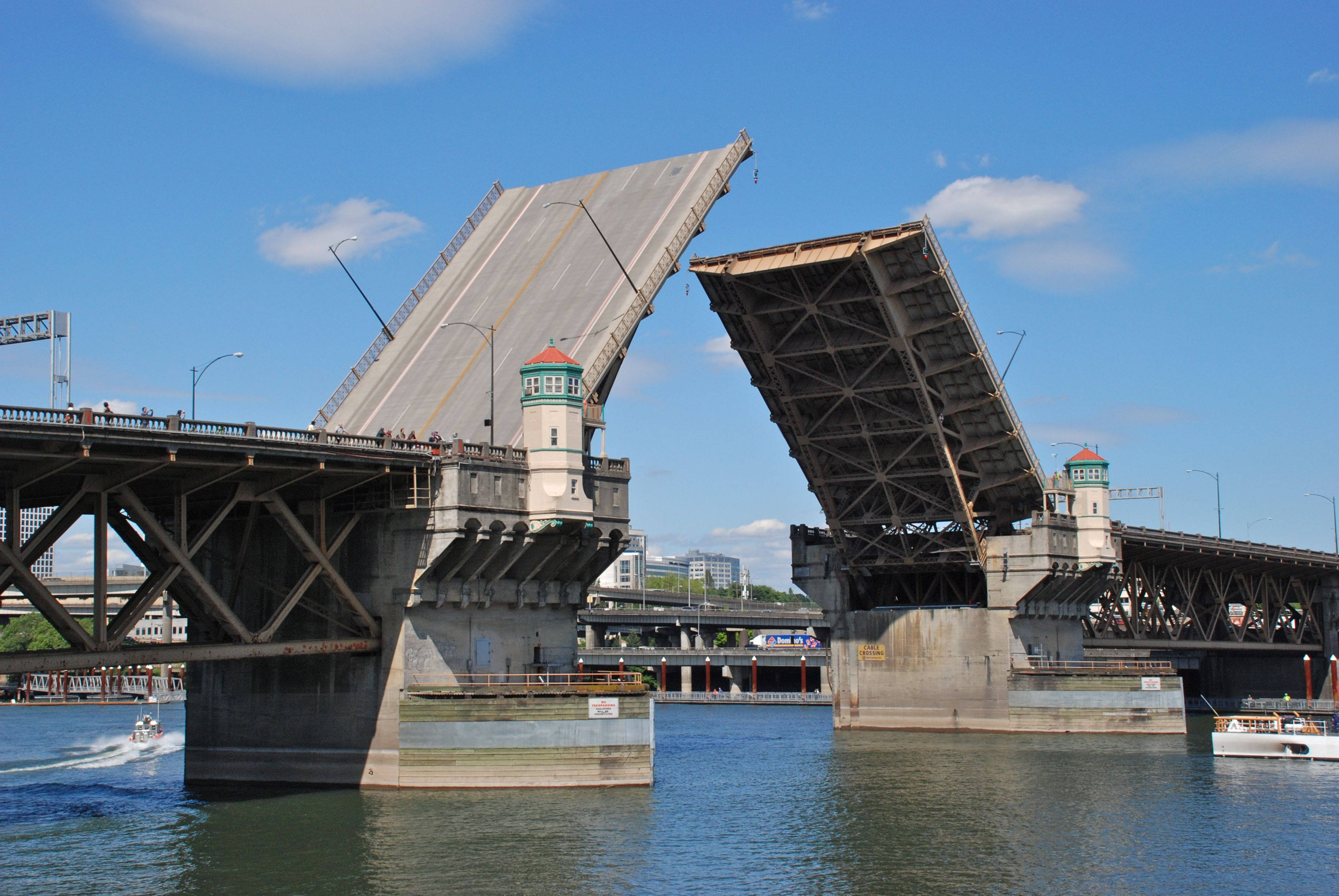 The Burnside Bridge, in Portland, Oregon, opened for a ship. This view is from Waterfront Park and shows the bridge's south side.